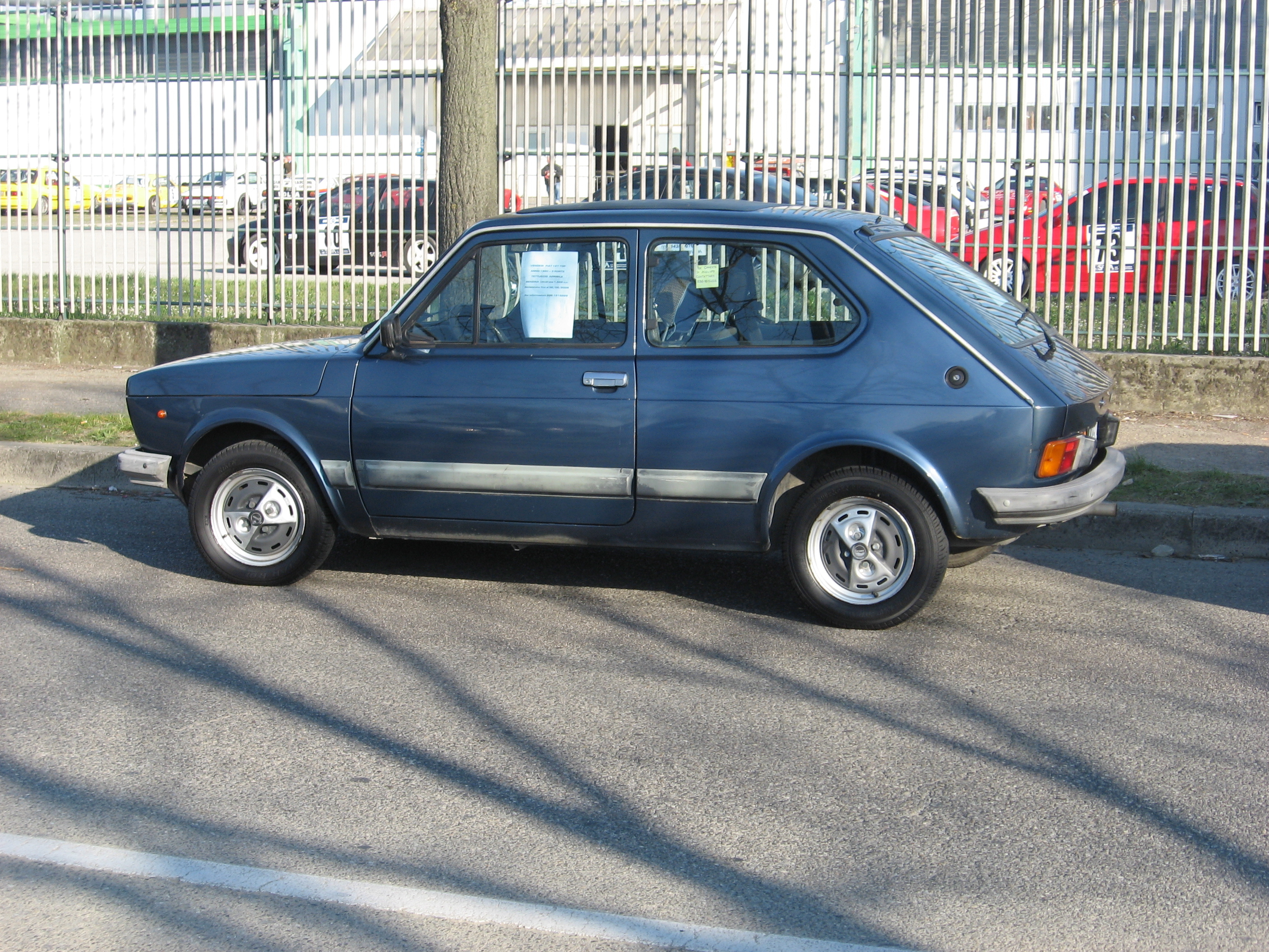 Subject: Fiat 127 Sport Author: Luc106 Date: 18 march 2007 City/Country: Forlì (Italy) Event: Old Time Show I release all rights in the public domain.